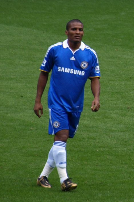 Chelsea left winger Florent Malouda